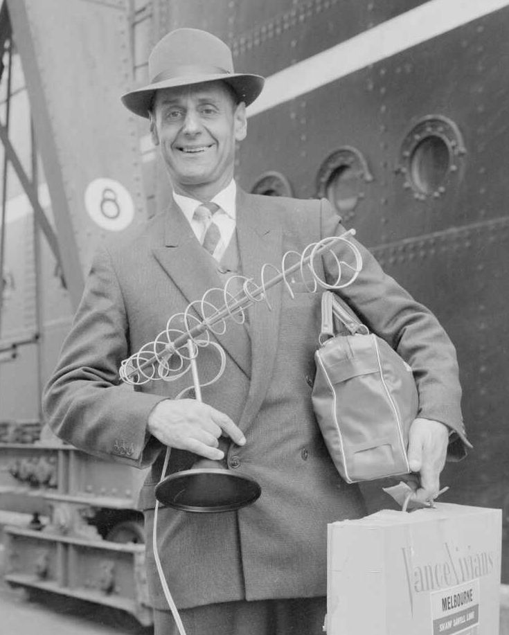 Saul Goldsmith in 1960, with a television antenna and Vance Vivian bags, on an unidentified Wellington wharf